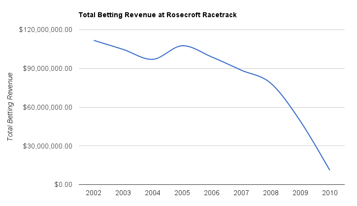 A chart showing the total about wagered at Rosecroft Raceway from 2002 to 2010.